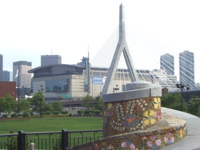 Photo of the FleetCenter in Boston during the en:2004 Democratic National Convention by Brian Corr, July 29, 2004. Released under GNU Free Documentation License Category:Images of Boston, Massachusetts